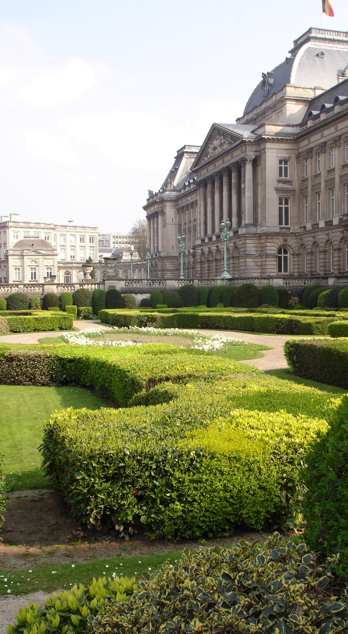 Formal palace-garden ;own Photo taken by Carolus 23:05, 12 April 2007 (UTC)